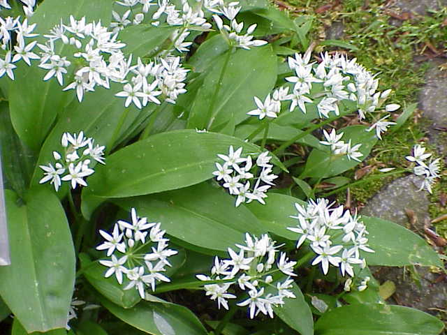 Species: Allium ursinum Family: Liliaceae Image No. 1